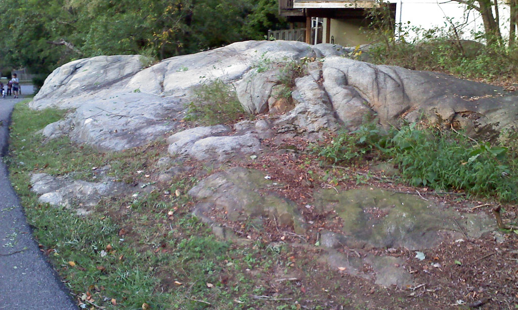 Outcrop of Silurian Guilford Quartz Monzonite in Kings Contrivance, Columbia, Maryland. 20 September 2012.